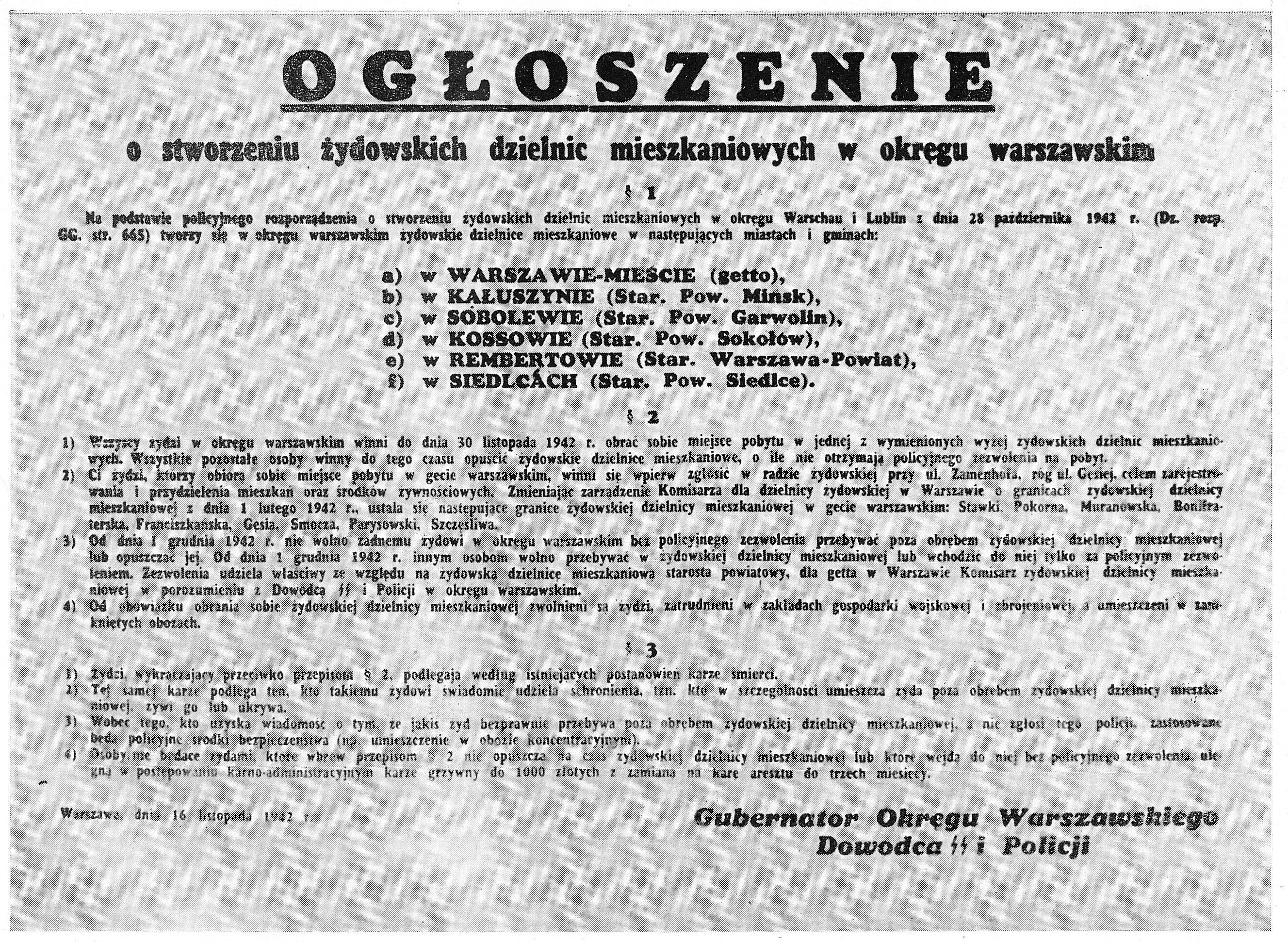 Announcement about establishing six restghettos in the Warsaw district